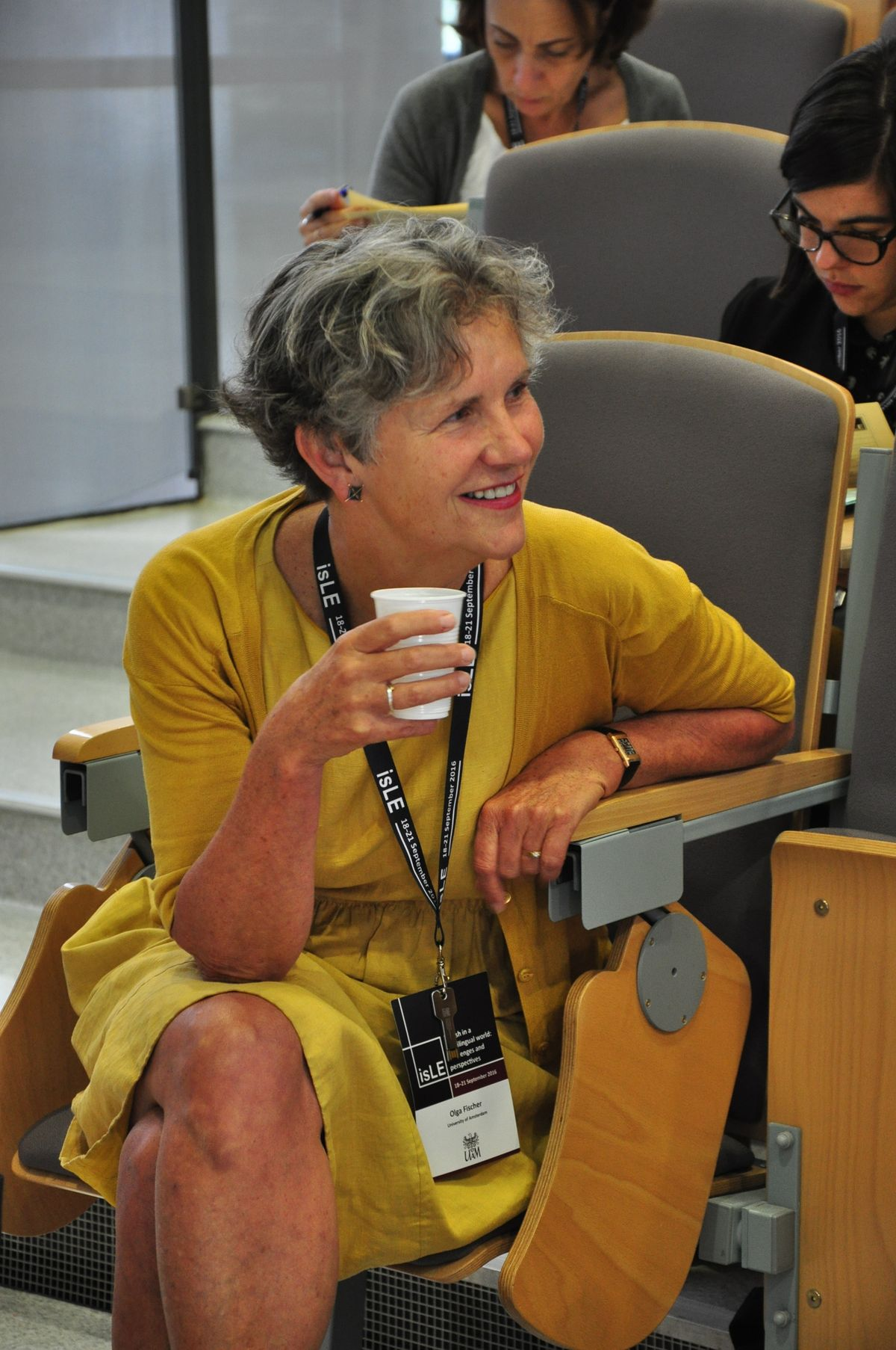 Olga Fischer at the 2016 ISLE conference, Adam Mickiewicz University in Poznań, Poland